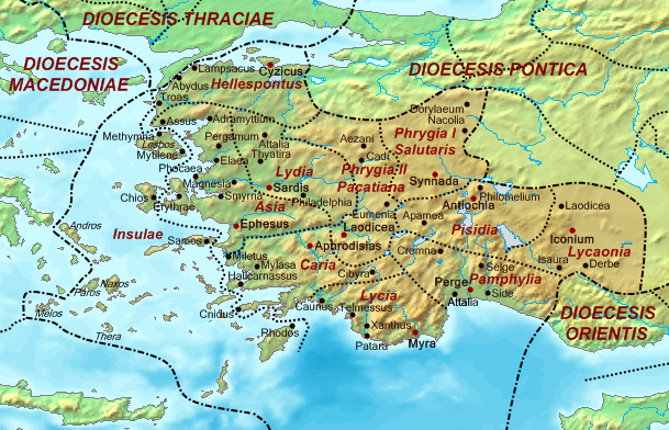 Map of the Diocese of Asia (Dioecesis Asiana) ca. 400 AD, showing the subordinate provinces and the major cities.